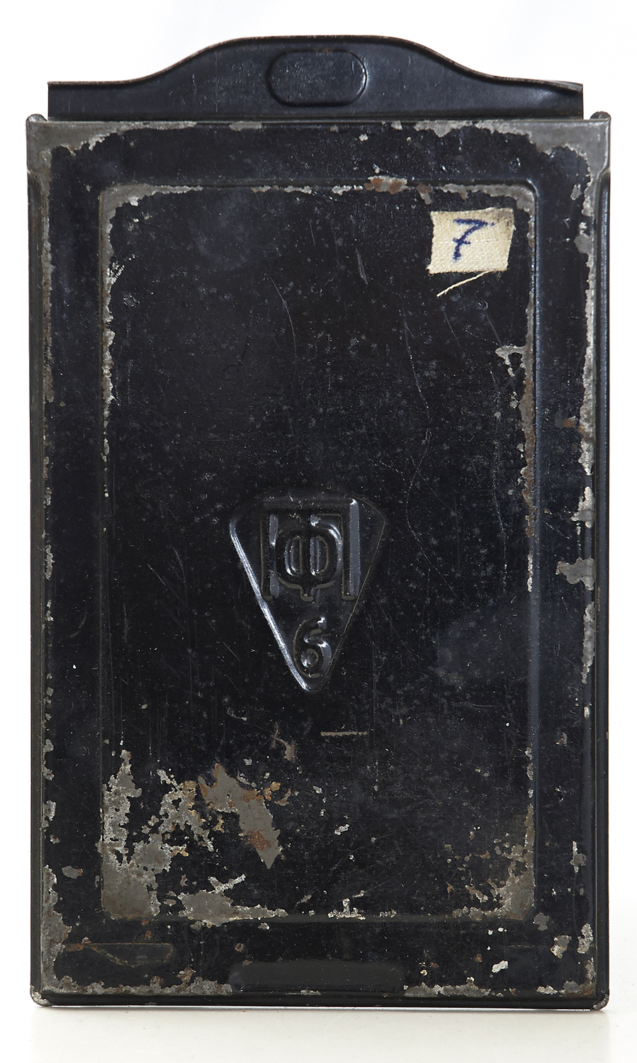 Fotocor N1. Cartridges.